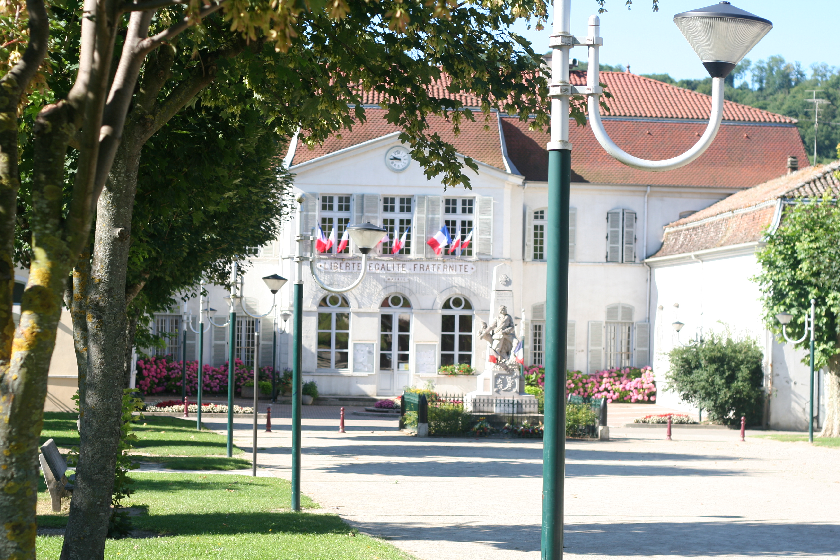 Town hall of the commune of Saint Savin, Isère, France.